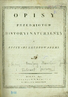 Title page: Stanislaw Bonifacy Jundziłł Fortunat Jurewicz. Opisy przedmiotow historyi naturalney. Wilno: nakł. Fr. Moritza, 1820